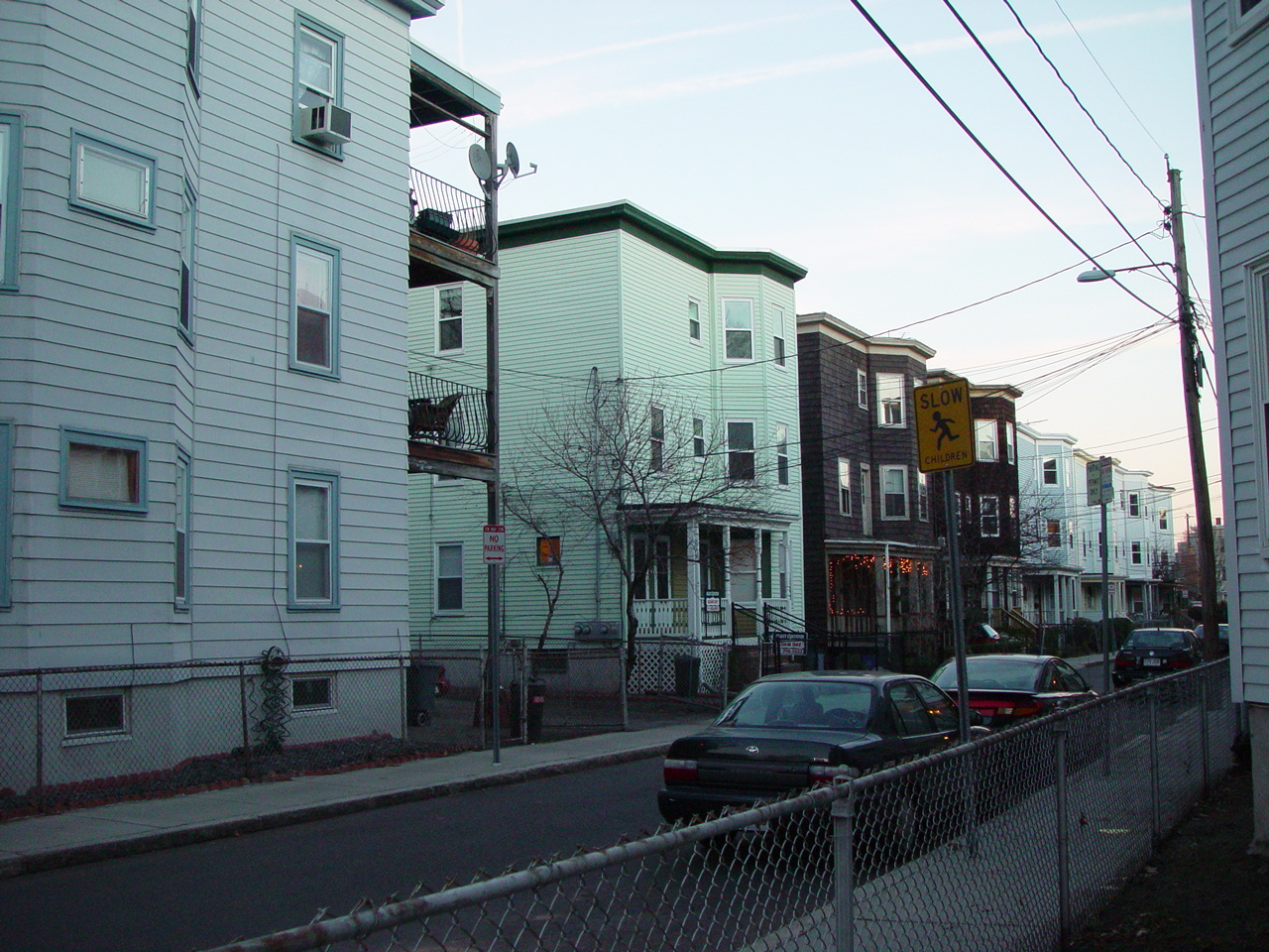 Triple decker housing in Cambridge, Massachusetts.